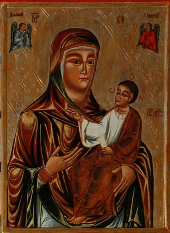 Czarna (Poland), Greek Catholic church. Icon Hodigitria